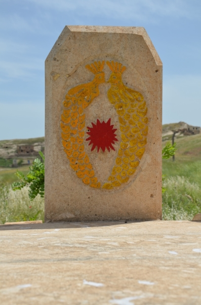 Gravestone on a Yazidi cementery in Yolveren (Çinerya) in the Beşiri district of the Batman Province in Turkey